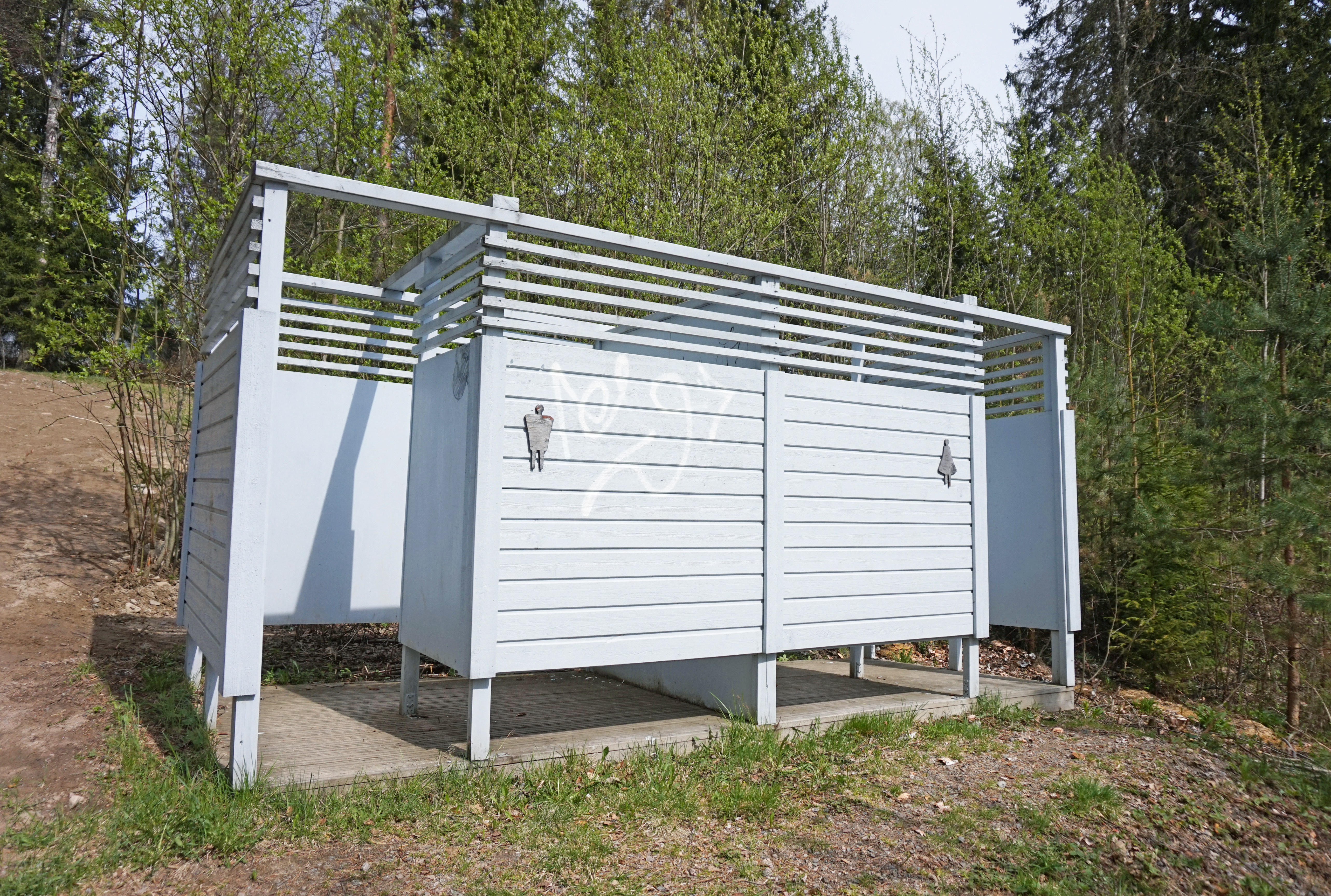 Changing cubicle on the beach of the lake Vesankajärvi.